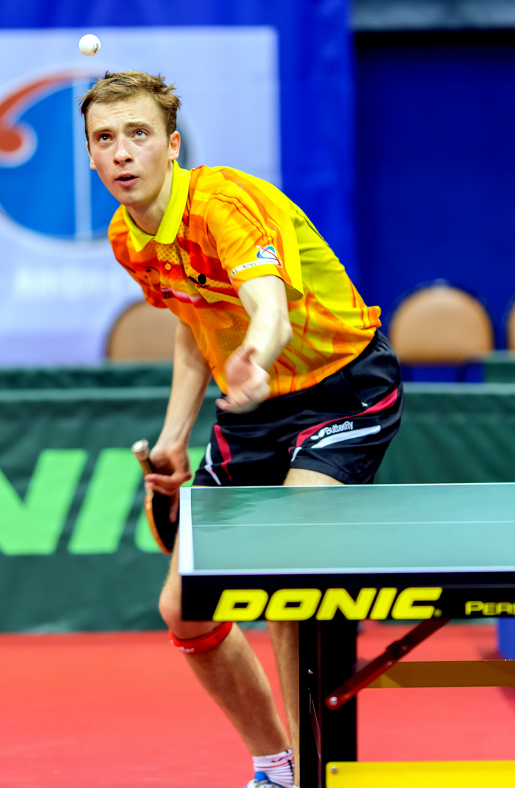 Alexander Shibayev during final match of Russian premier league (season 2012-13) in Moscow